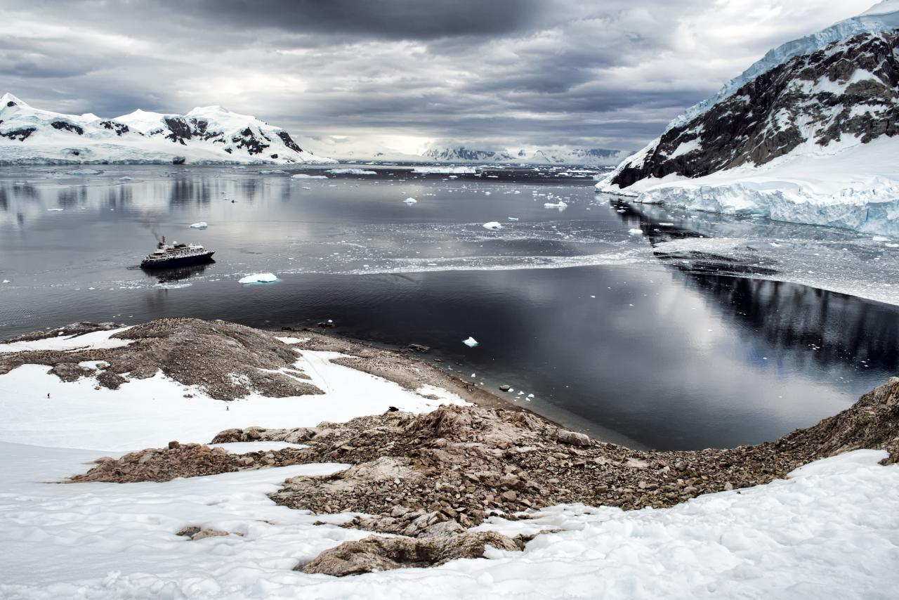 Lidia Bastianich in Antarctica